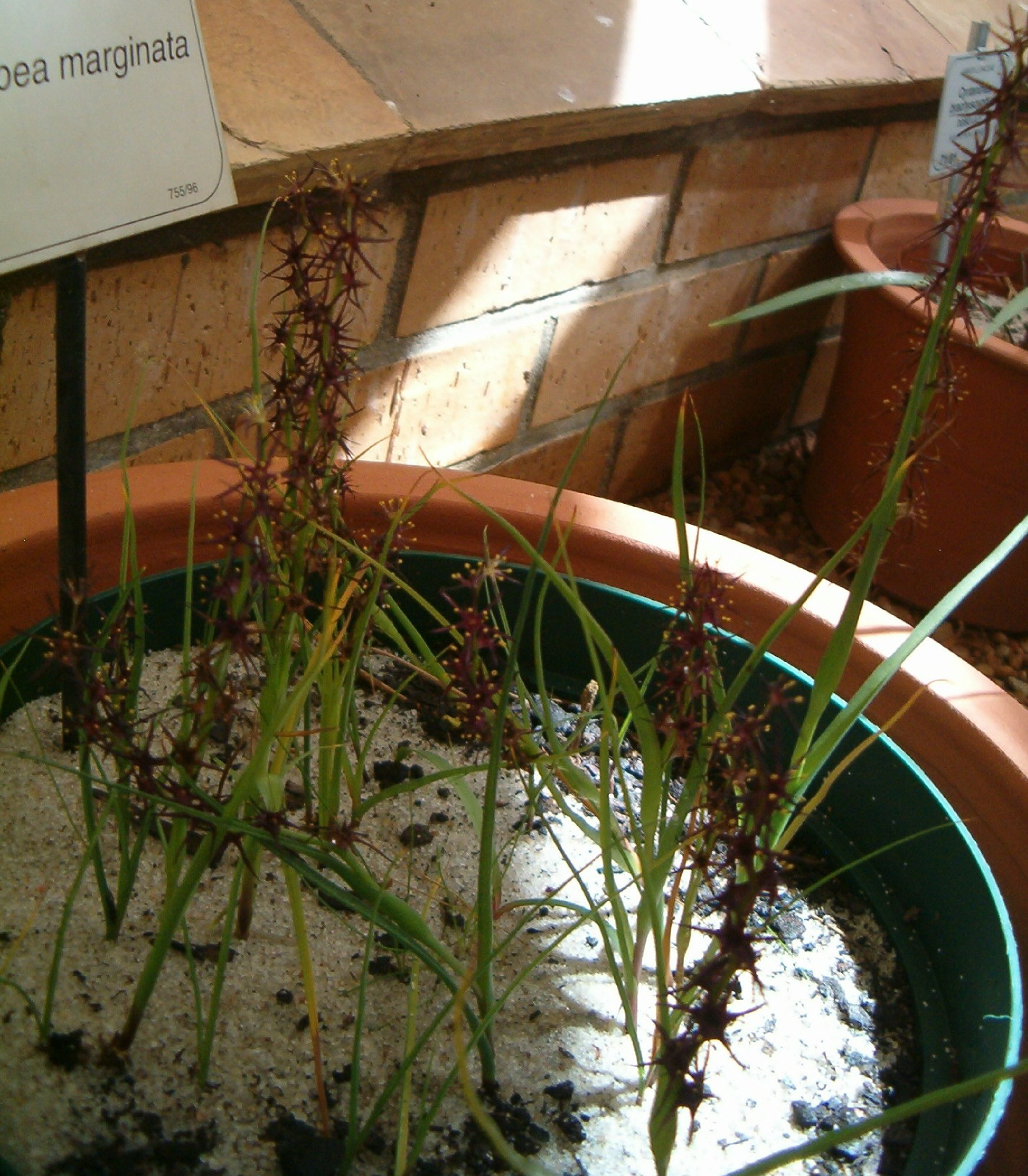 At Kirstenbosch National Botanical Gardens Species Wurmbea marginata